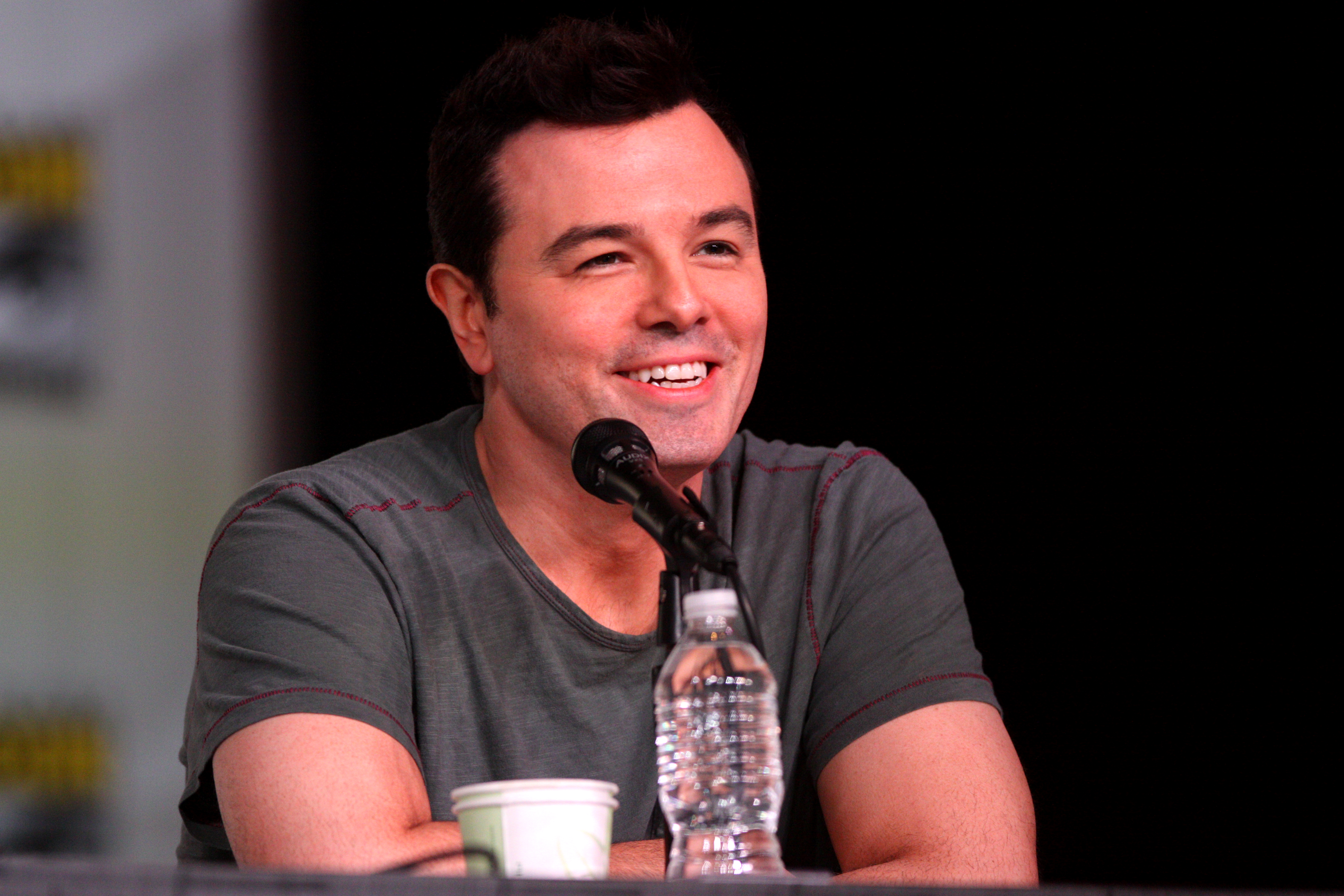 Seth MacFarlane speaking at the 2012 San Diego Comic-Con International in San Diego, California.